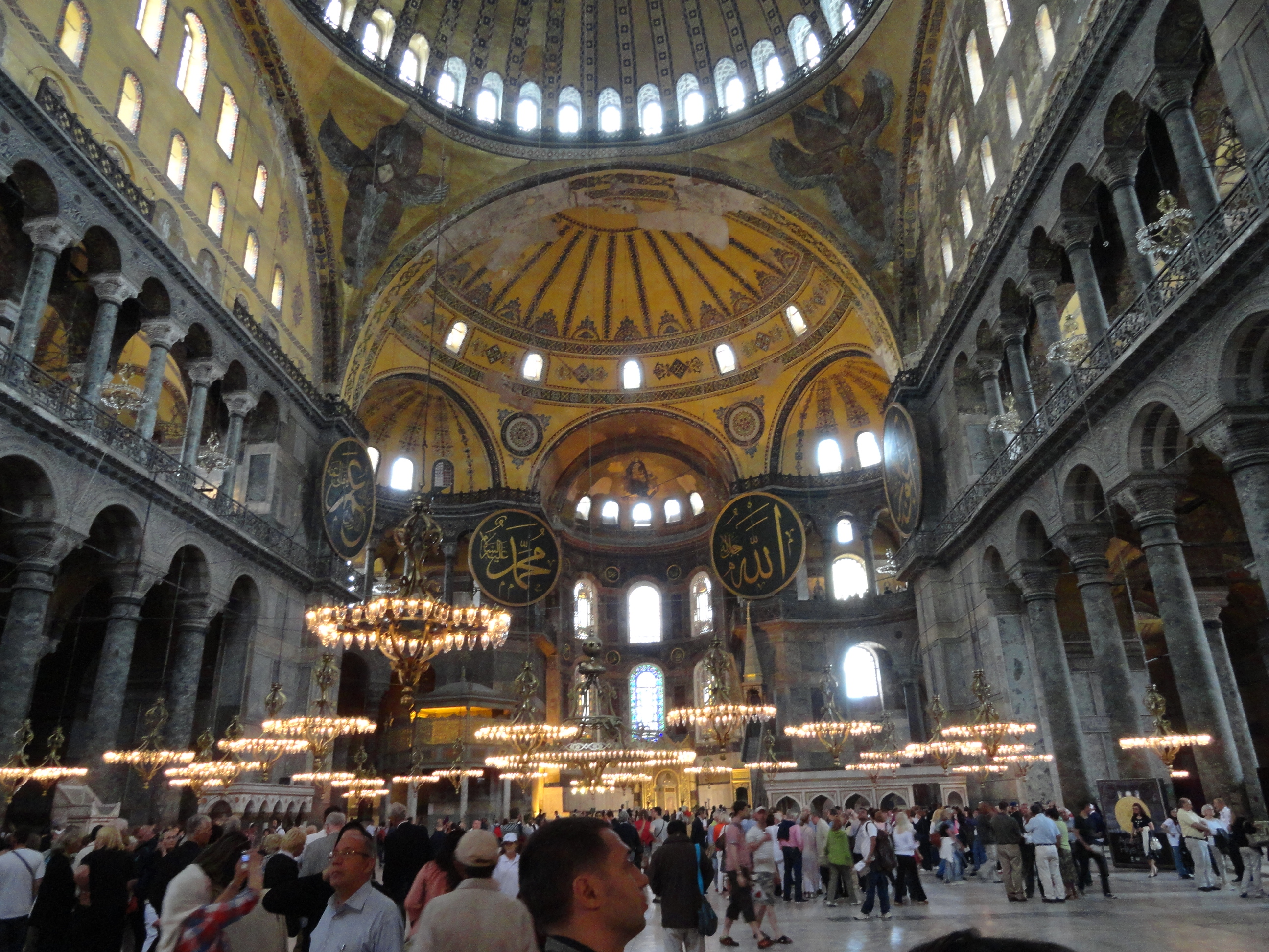 Hagia Sophia (Aya Sofya) is constructed in 537 in Constantinople, Turkey. Since then it was Greek Orthodox patriarchal basilica, later on it turned to be imperial mosque and since 1935 it is one of the most attractive museums for Istanbul visitors. For interesting travel tips visit